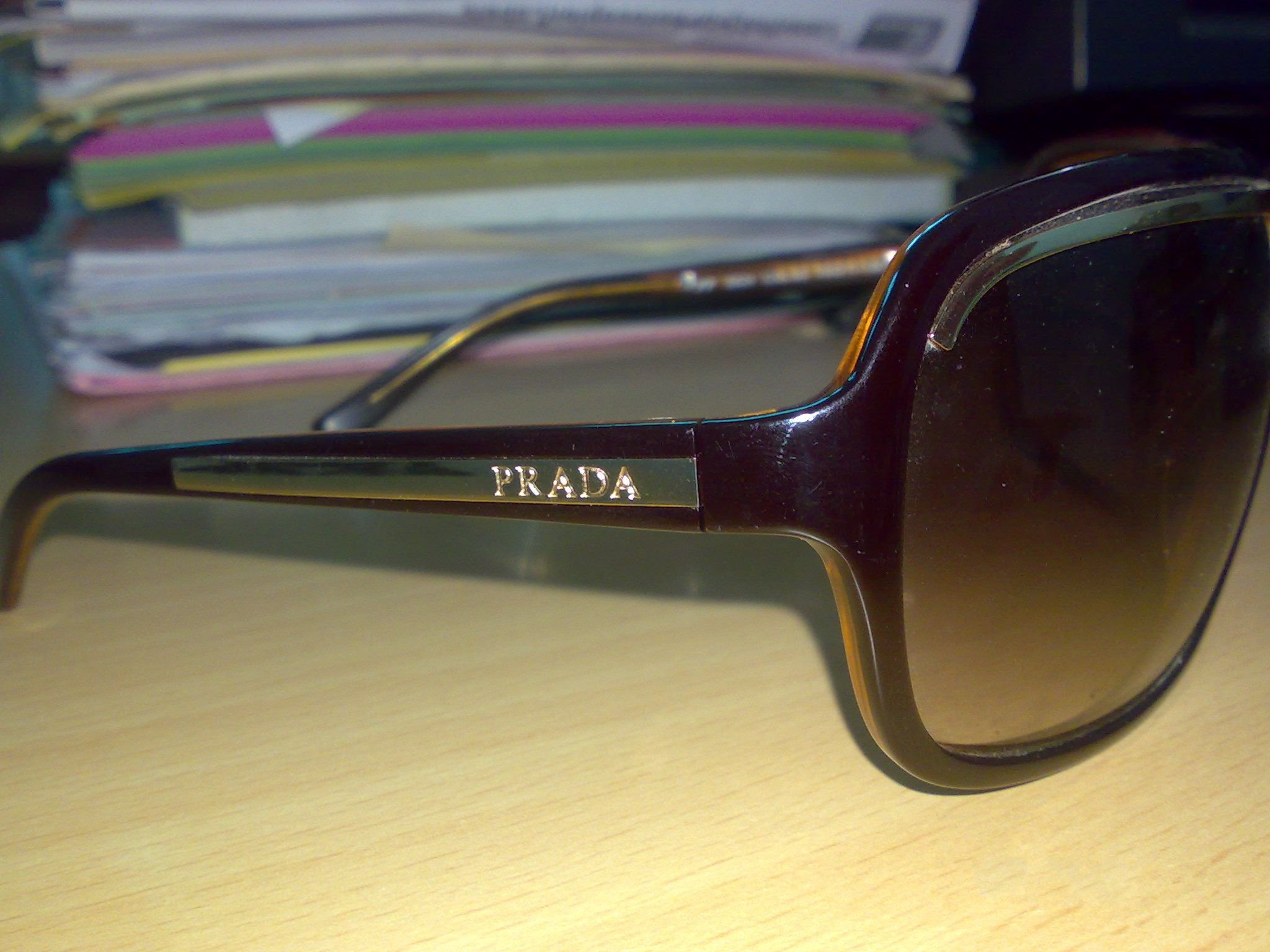 Prada glasses.